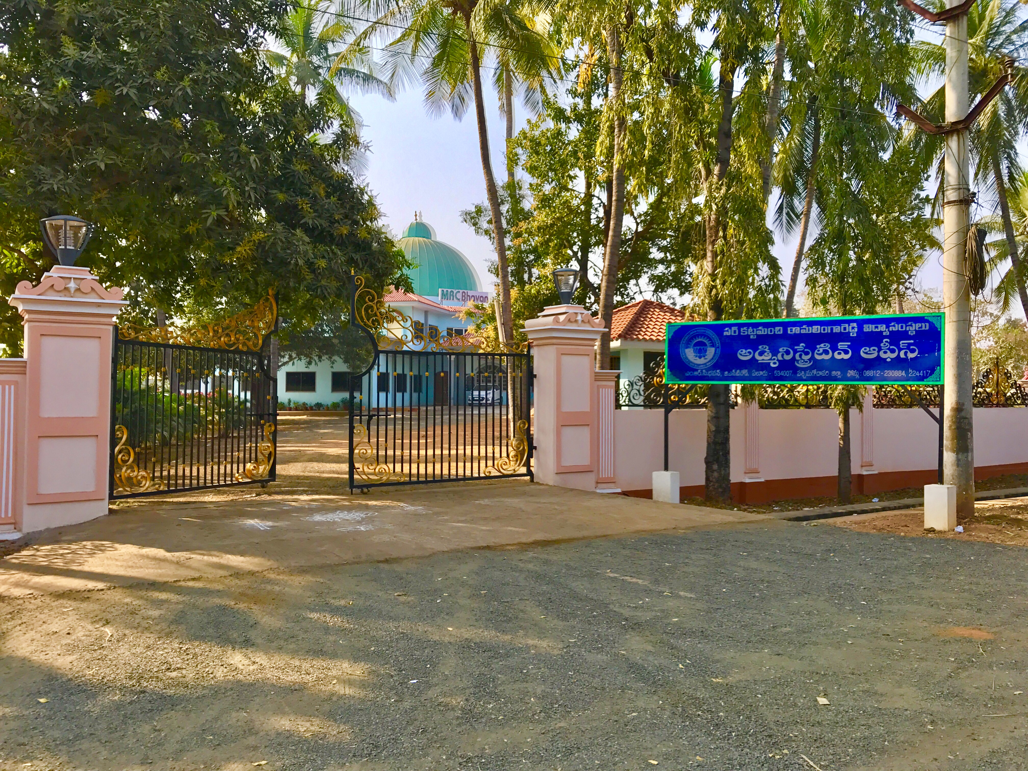 C R reddy Administrative office